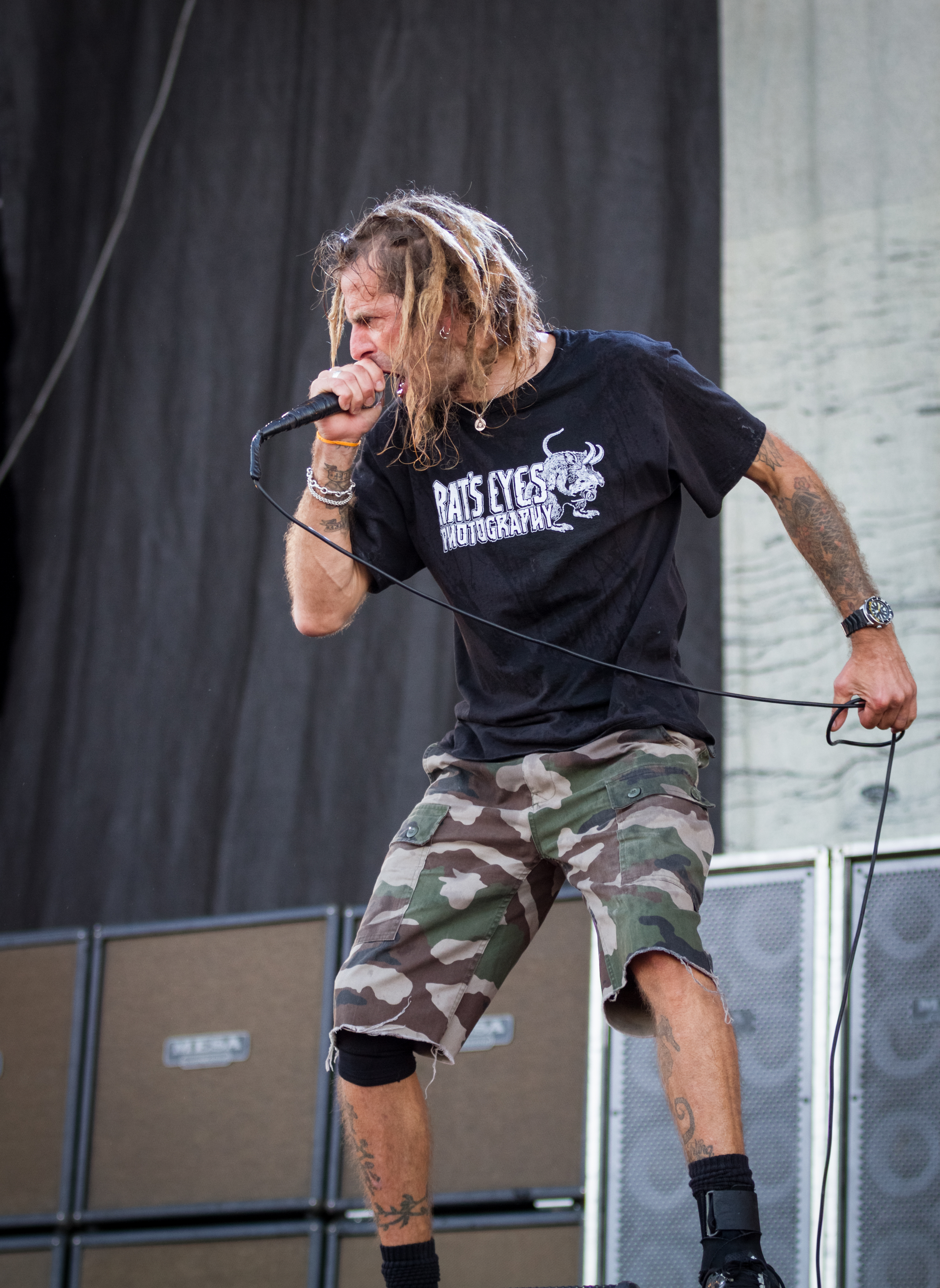 Lamb Of God - Rock am Ring 2015